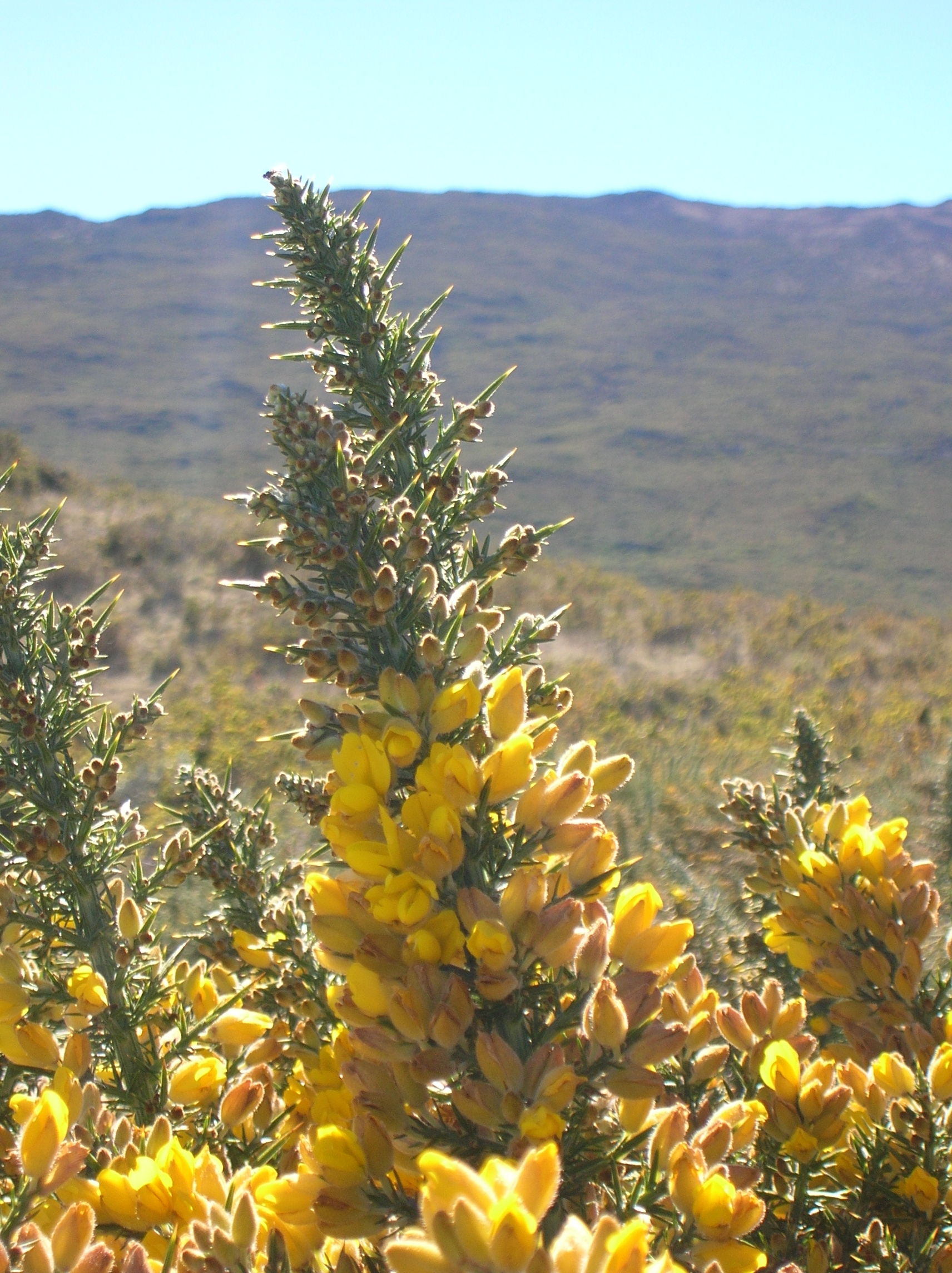 Ulex europaeus (flowers). Location: Maui, Puu Nianiau